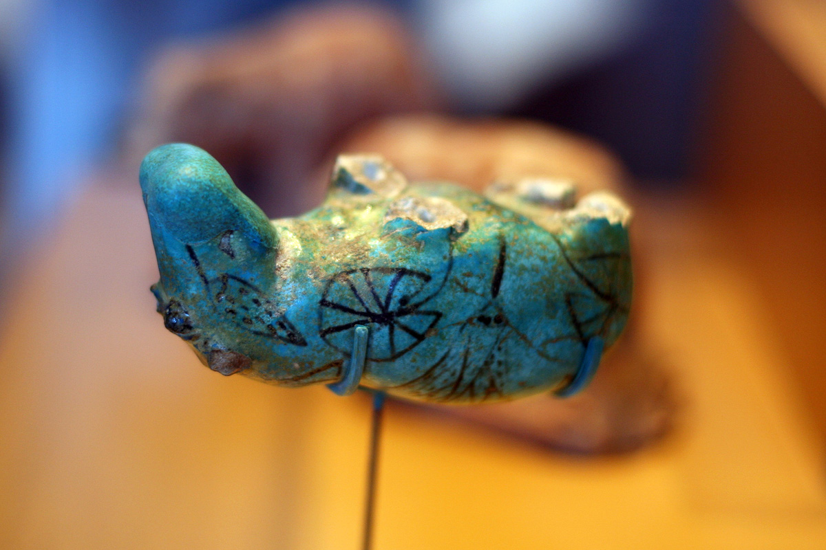 Hippo, ca. 1938-1539 B.C.E. Faience (ground quartz, alkaline binder, glaze), painted. Brooklyn Museum, Charles Edwin Wilbour Fund, 35.1276.